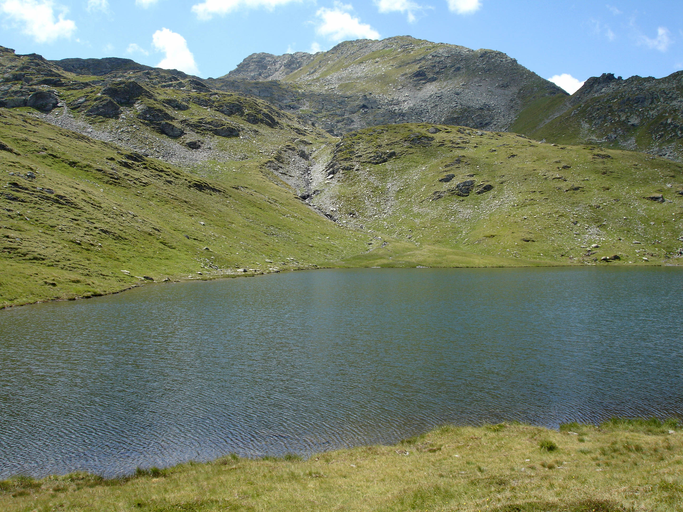 The Reinkarsee is a mountain lake in the Austrian Alps of Kitzbühel. In the background the Kröndlberg (2440 m) hides the highest point of the massif: the Kröndlhorn (2444 m).